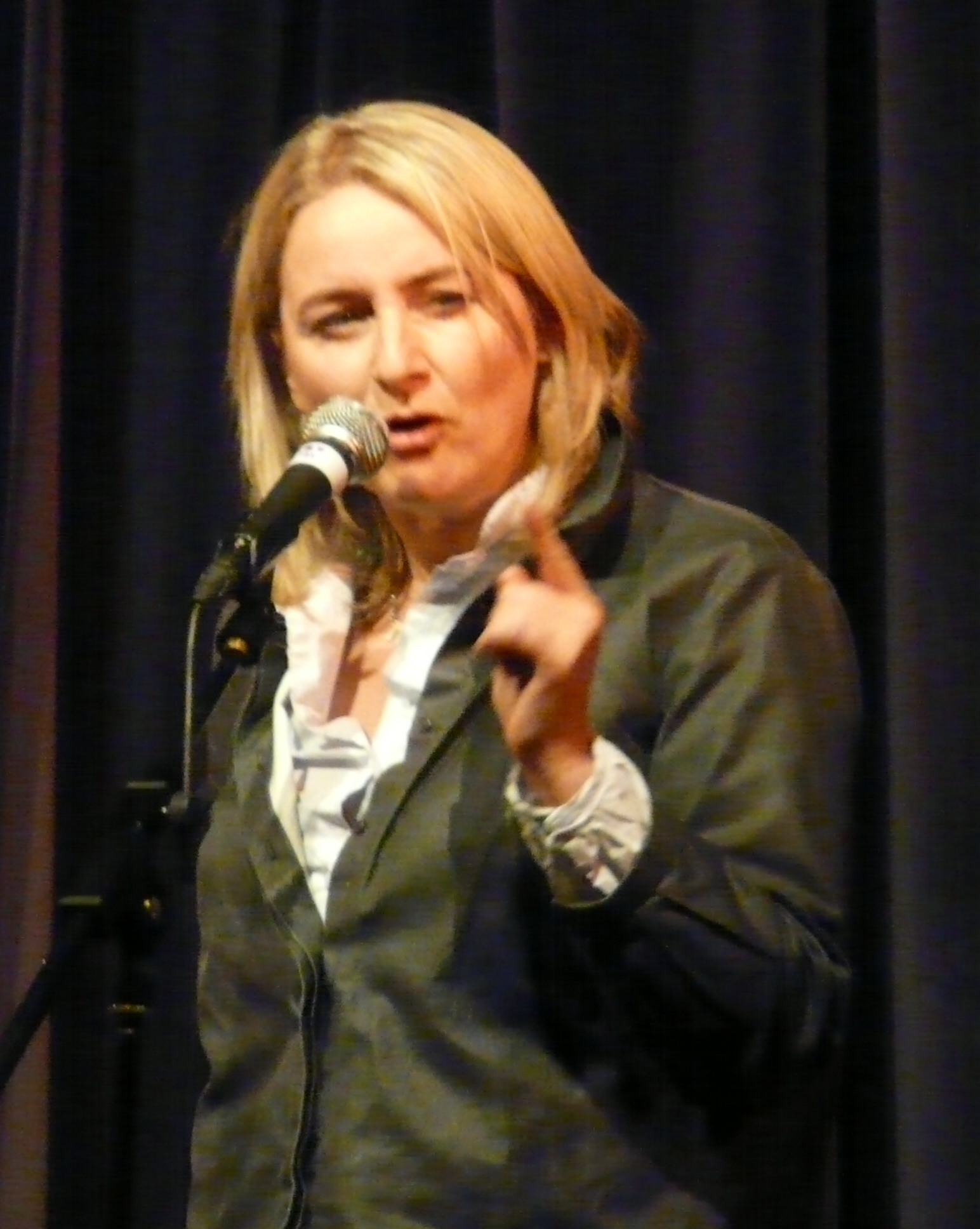 The Last 'A.i.O.t.m', Leicester Square Theatre, Emma Kennedy